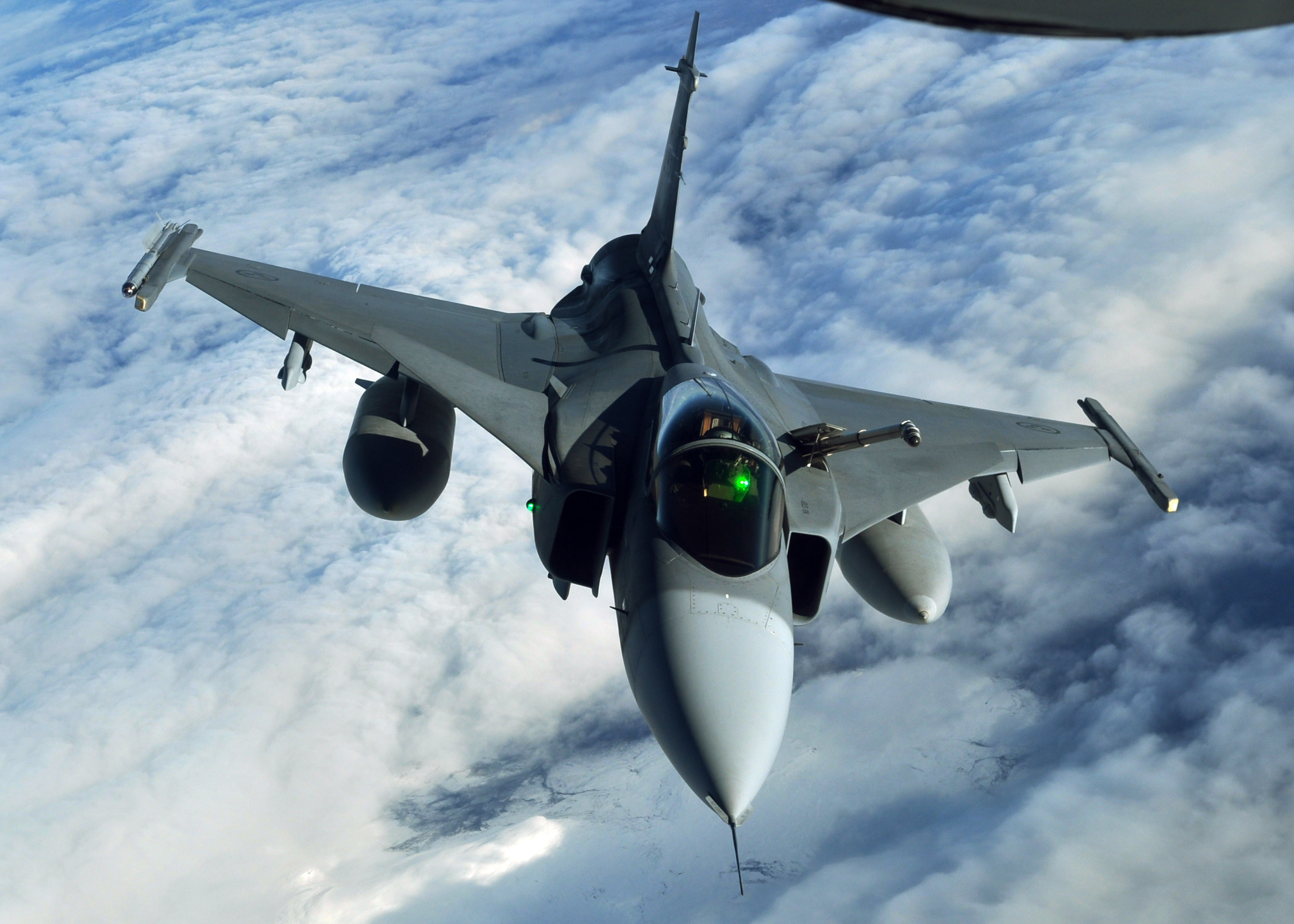 A Swedish JAS-39 Gripen returns to the play areas of the Arctic Challenge exercise Sept. 24, 2013, over Norway, after taking on fuel from a U.S. Air Force KC-135R Stratotanker. The JAS-39, in coordination with aircraft from other nations, formed a Blue assault force, which had to bypass or neutralize an opposing Red force attempting to stop them from an overall objective outlined in the day’s scenario.